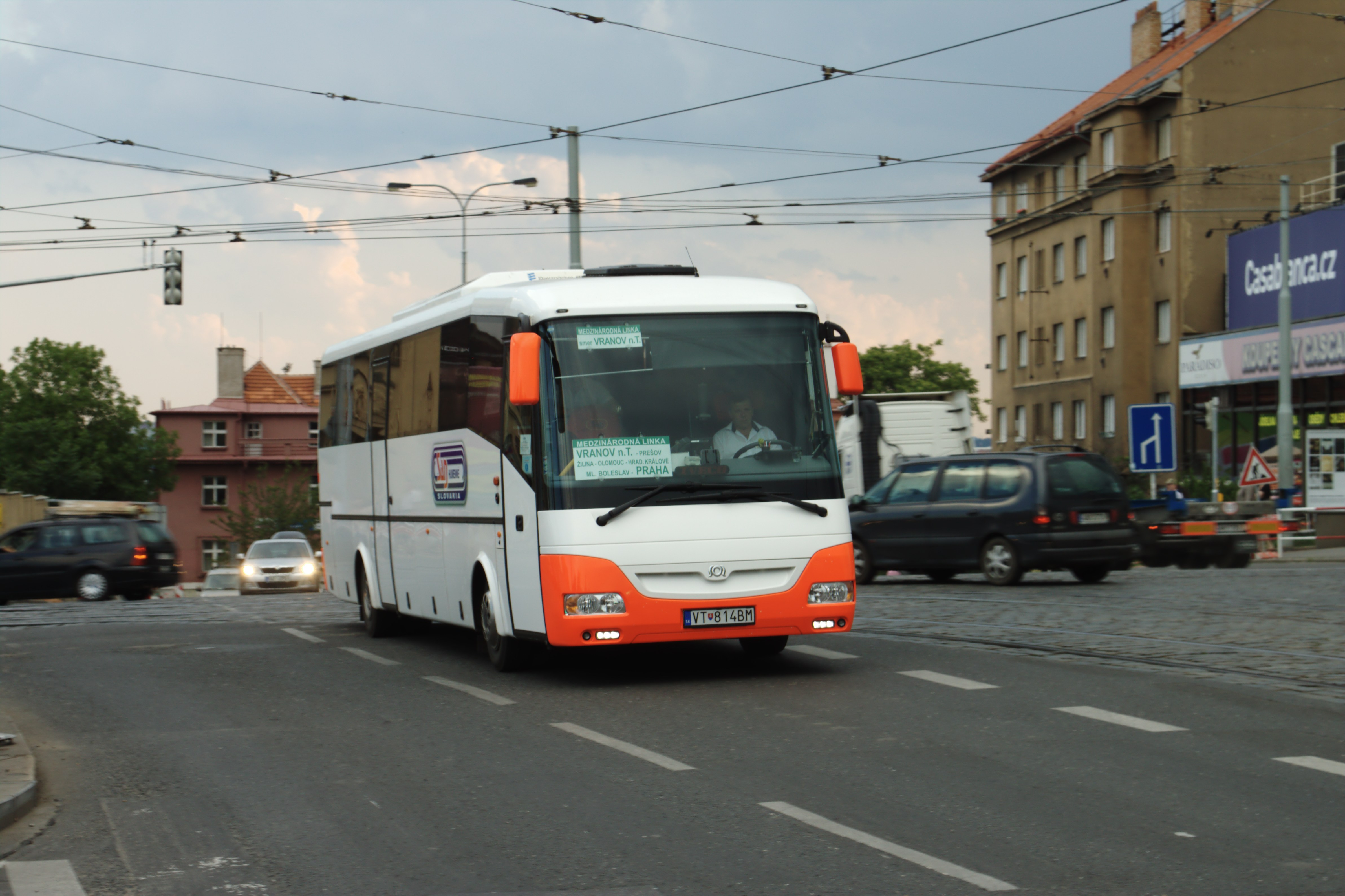 A bus heading from Prague-Želivského to eastern Slovakia